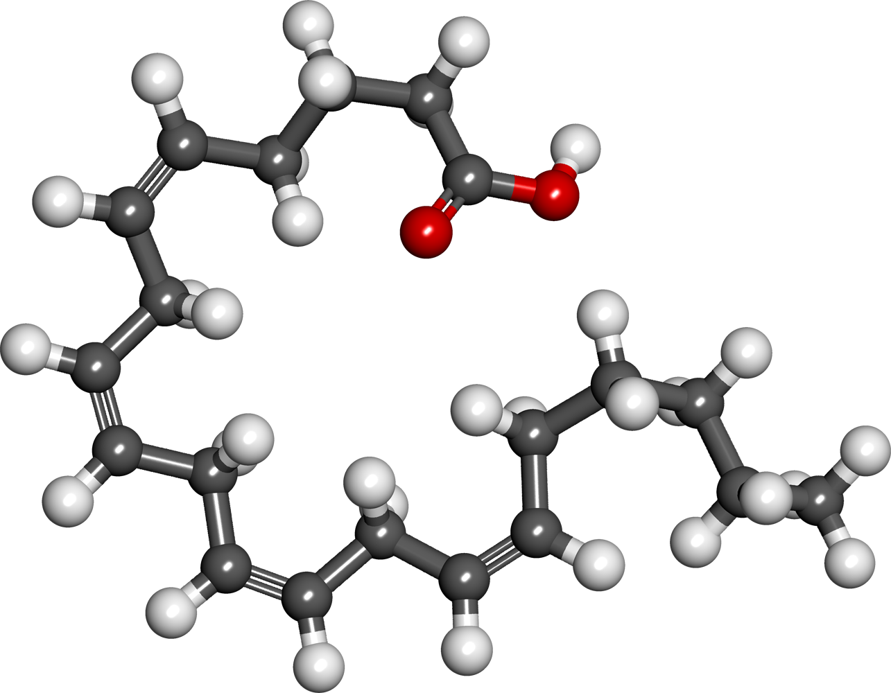 A ball-and-stick diagram of arachidonic acid.